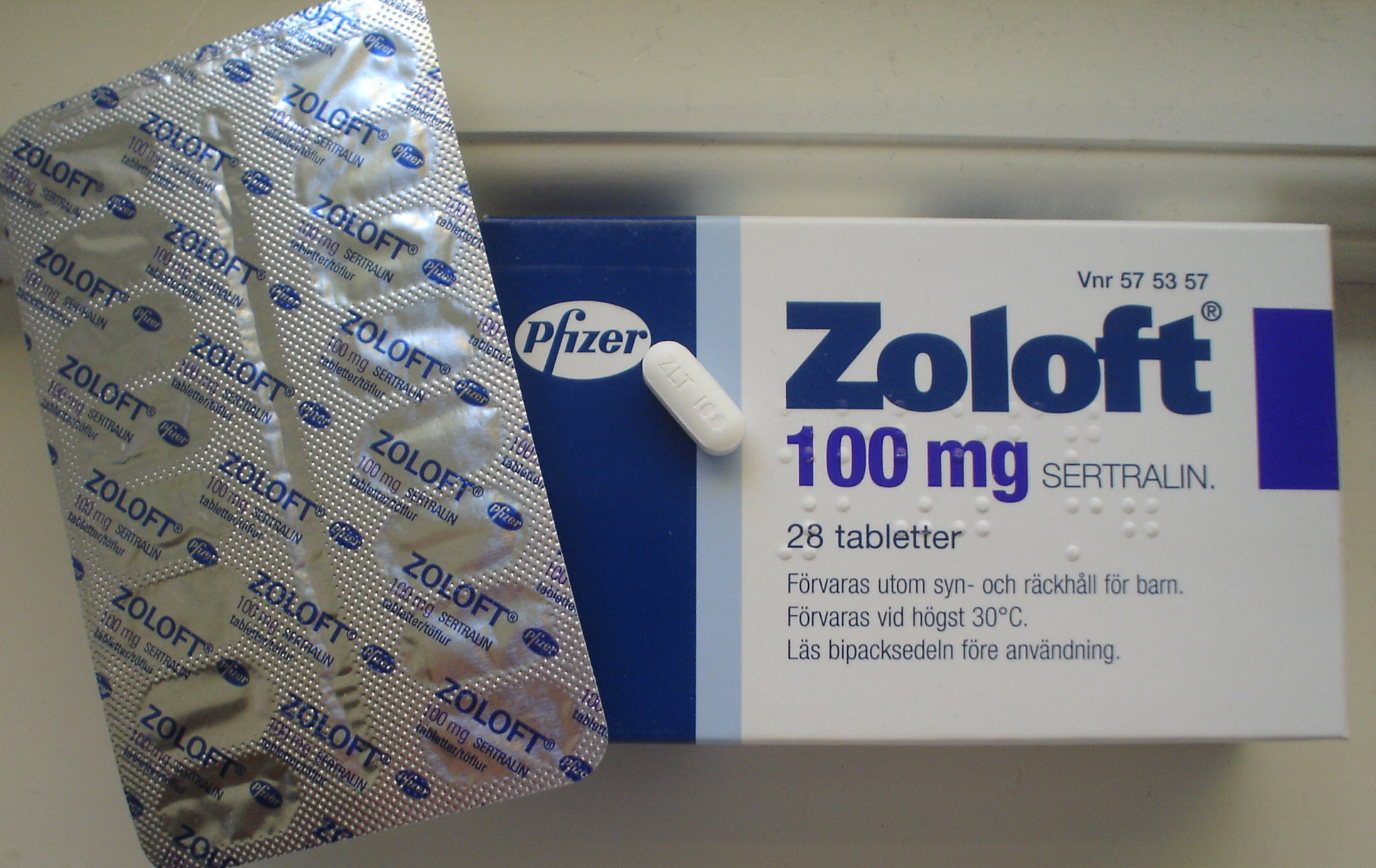 Zoloft